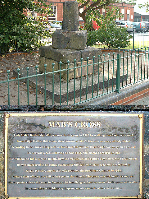 Lady Mabel's Cross